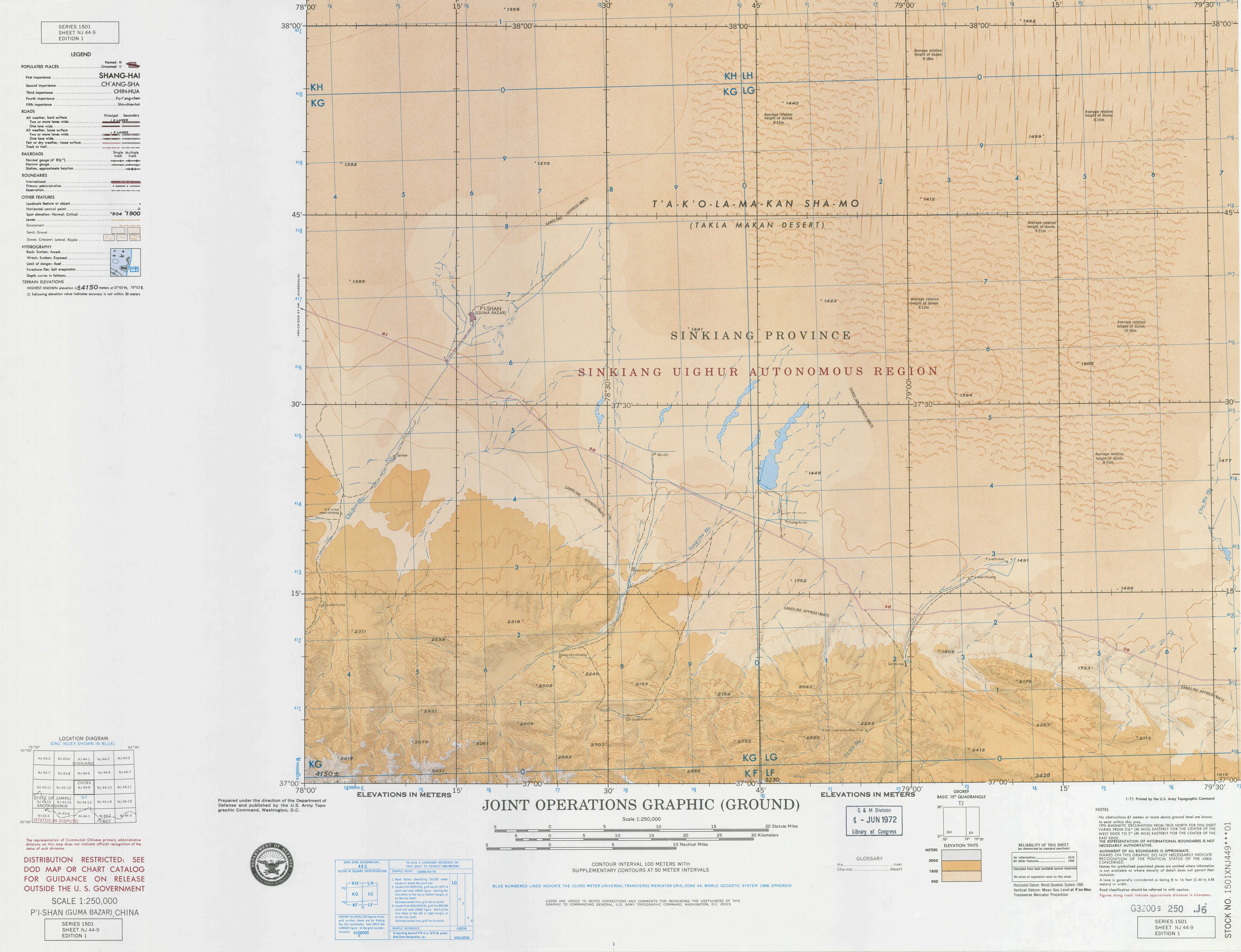 NJ-44-9 Takla Makan Desert